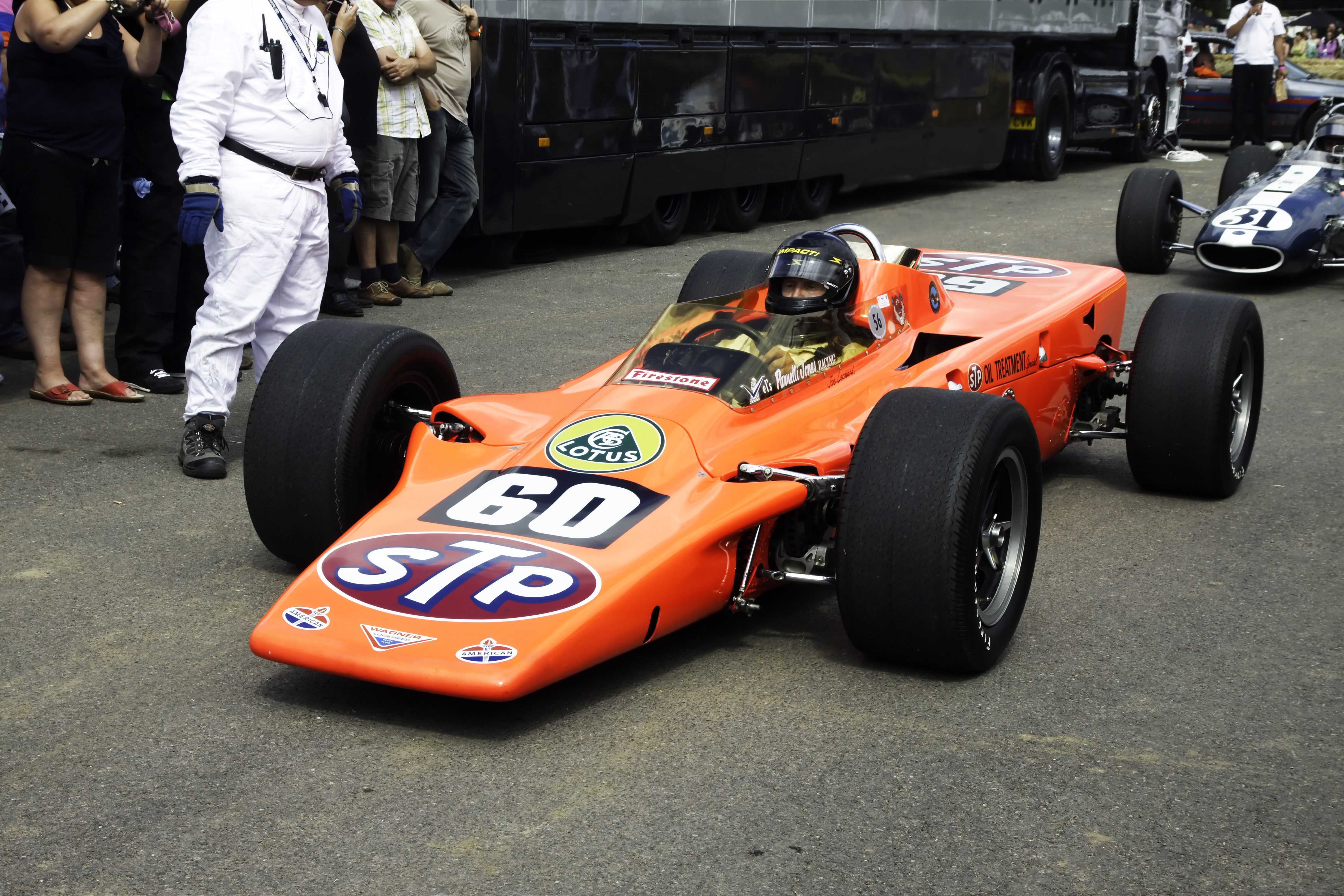 Lotus-Pratt & Whitney 56 STP Special